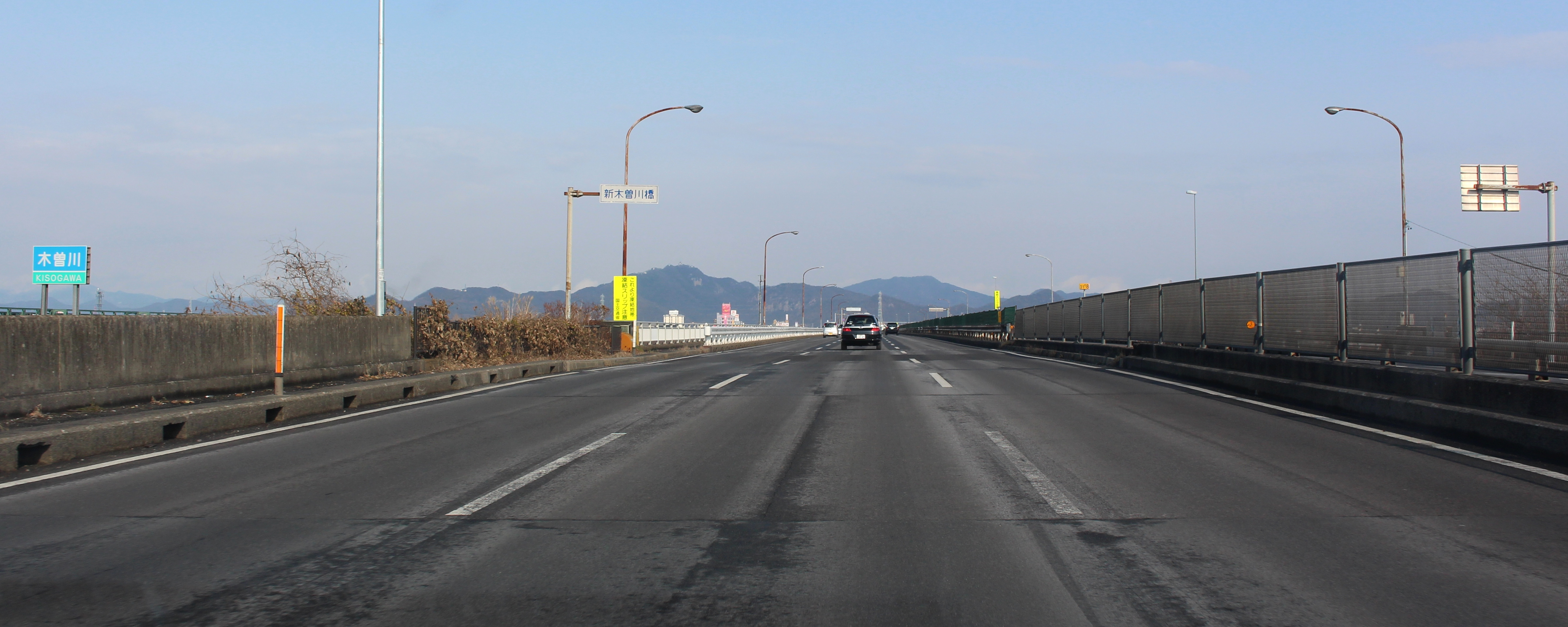 Shinkisogawa Bridge of Route 22 over Kiso River in Ichinomiya, Aichi prefecture, Japan.